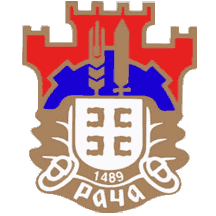 Coat of Arms of the city and municipality of Rača, Serbia